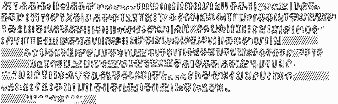 Barthel's tracing of rongorongo tablet Q, verso